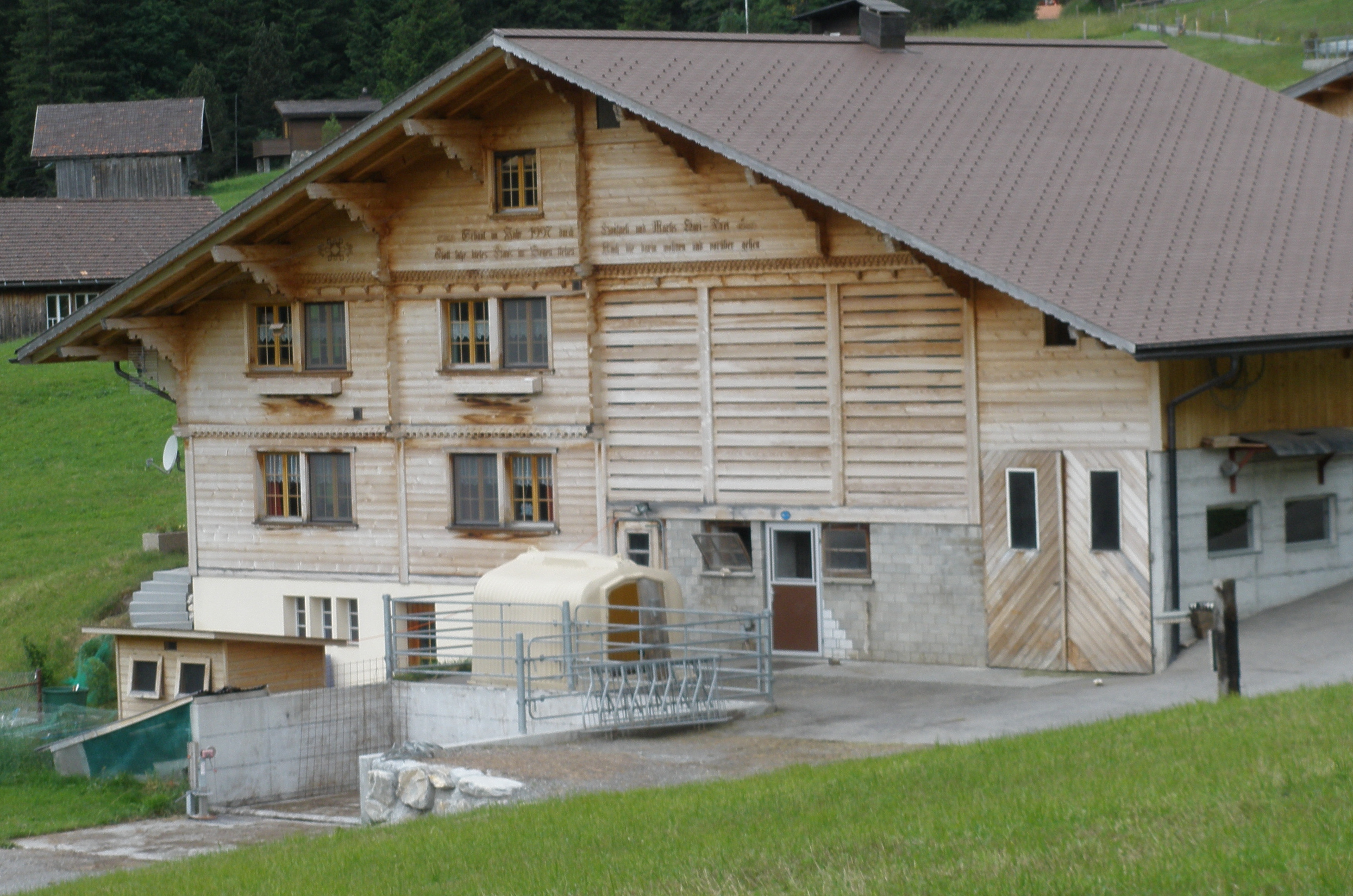 Modern Frutighaus (farmhouse type in Bernese Oberland) in Adelboden-Stiegelschwand